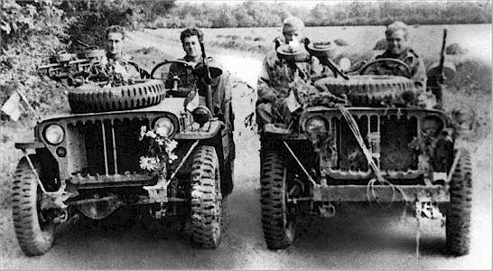 SAS Jeeps in France possibly Operation Wallace-Hardy or Operation Houndsworth August 1944